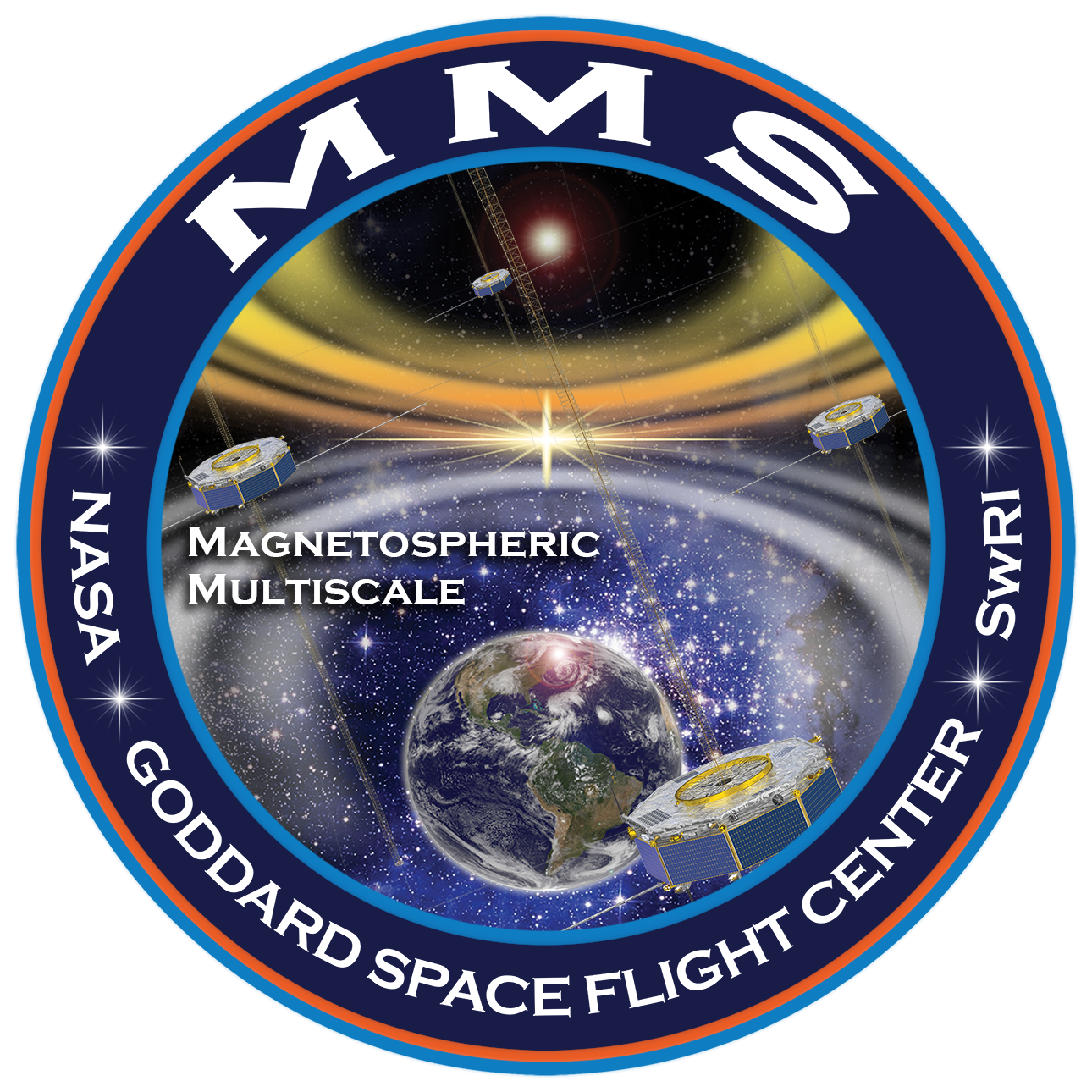 Logo for the Magnetospheric Multiscale Mission.